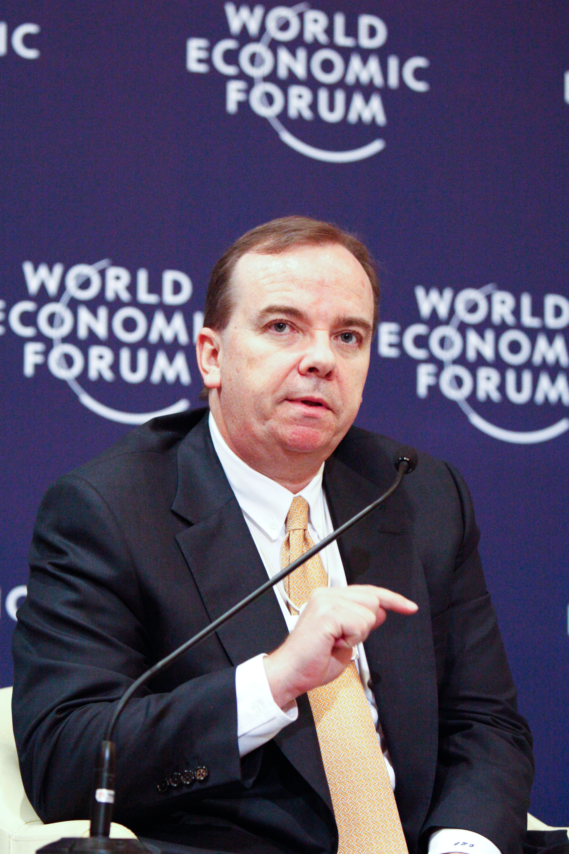 JAKARTA/INDONESIA, 12JUN11 - Stuart T. Gulliver, Group Chief Executive, HSBC Holdings, United Kingdom; Co-Chair of the World Economic Forum on East Asia, captured during Building around Bottlenecks: Upgrading Asia's Infrastructure at the World Economic Forum on East Asia in Jakarta, Indonesia, June 12, 2011. Copyright World Economic Forum ( Photo by Sikarin Thanachaiary